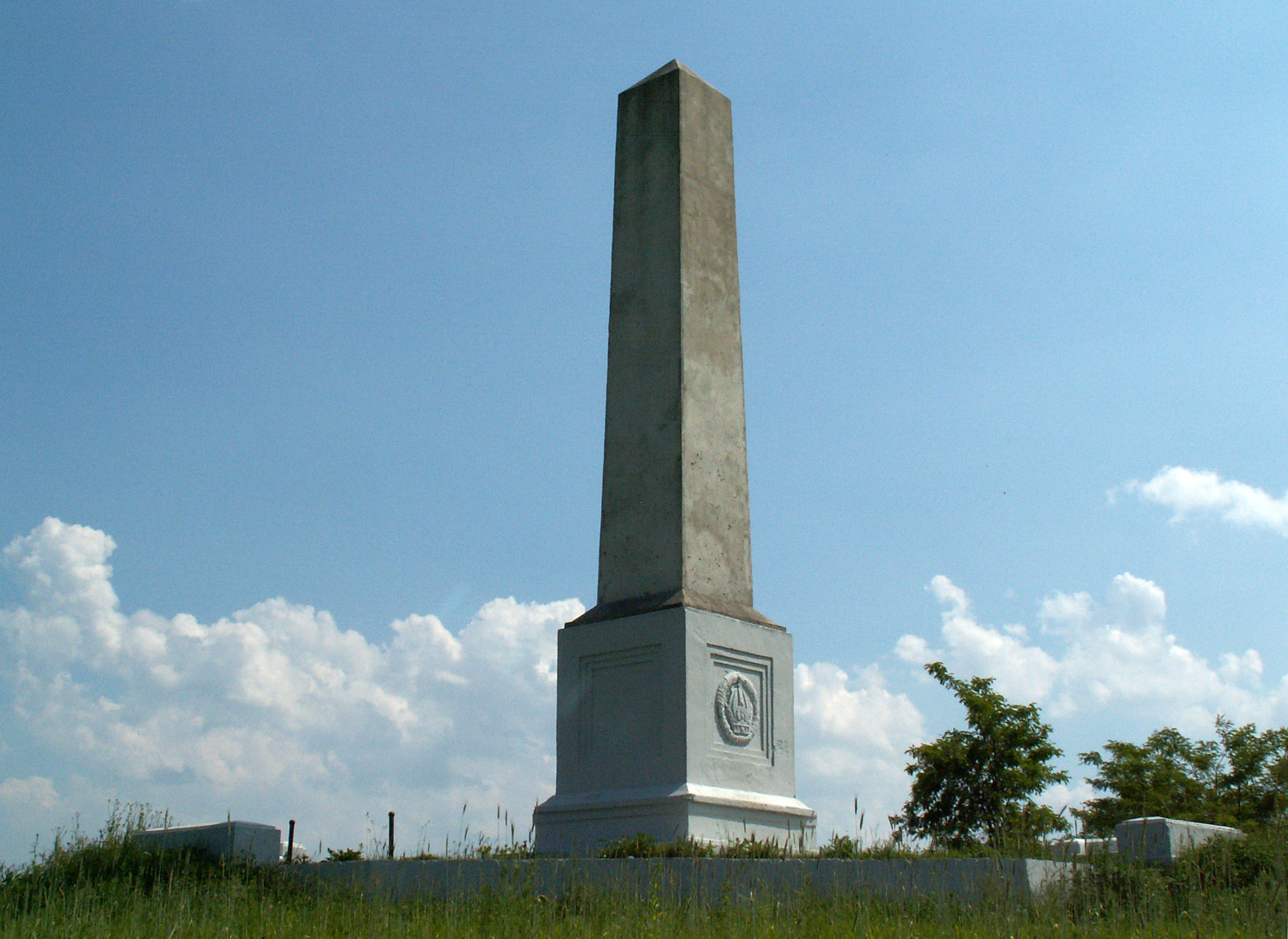 I WW Kaim Hill Memorial,Krakow,Poland